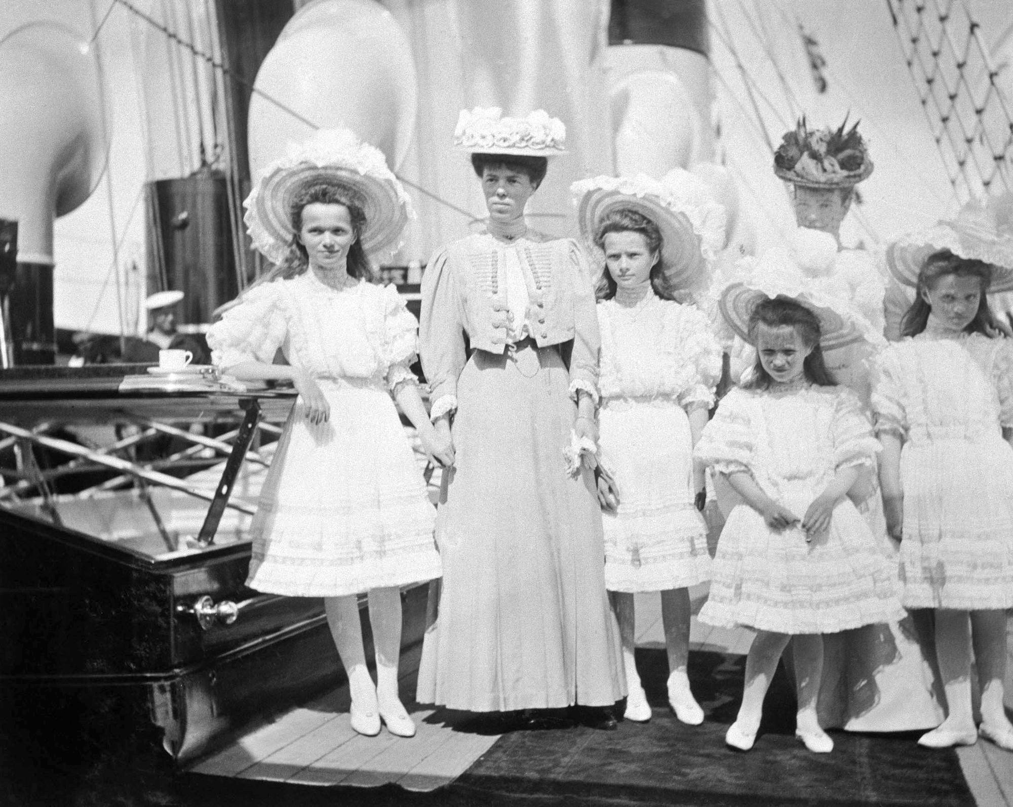 The Grand Duchesses Olga Nikolaevna of Russia, Olga Alexandrovna of Russia, Tatiana Nikolaevna of Russia, Anastasia Nikolaevna of Russia, Dowager Empress Maria Fyodorovna of Russia and Maria Nikolaevna of Russia aboard the Imperial yacht Standart, at Reval, Russia (now Tallinn, Estonia).